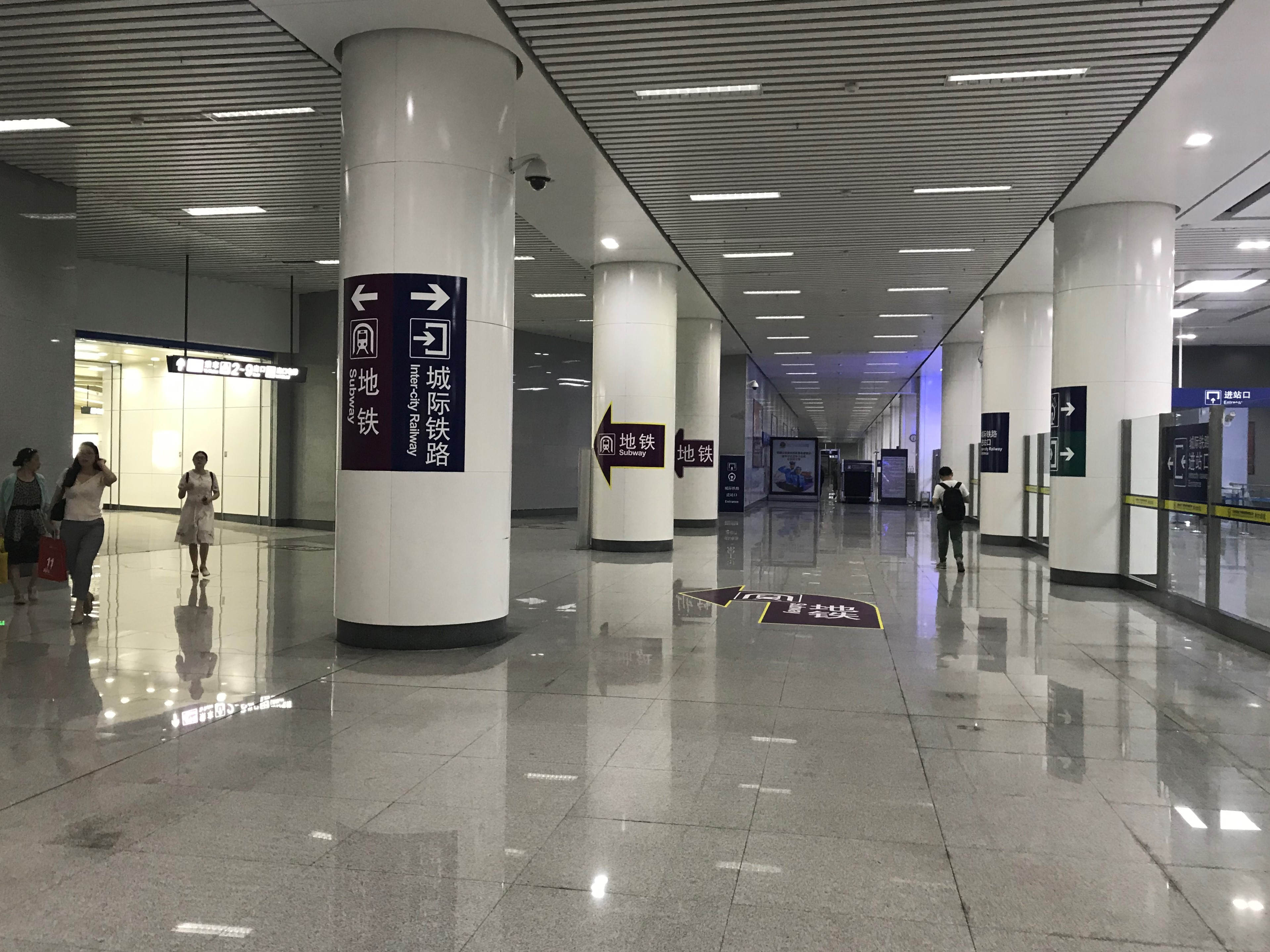 With access to the CSM station and the Intercity station.